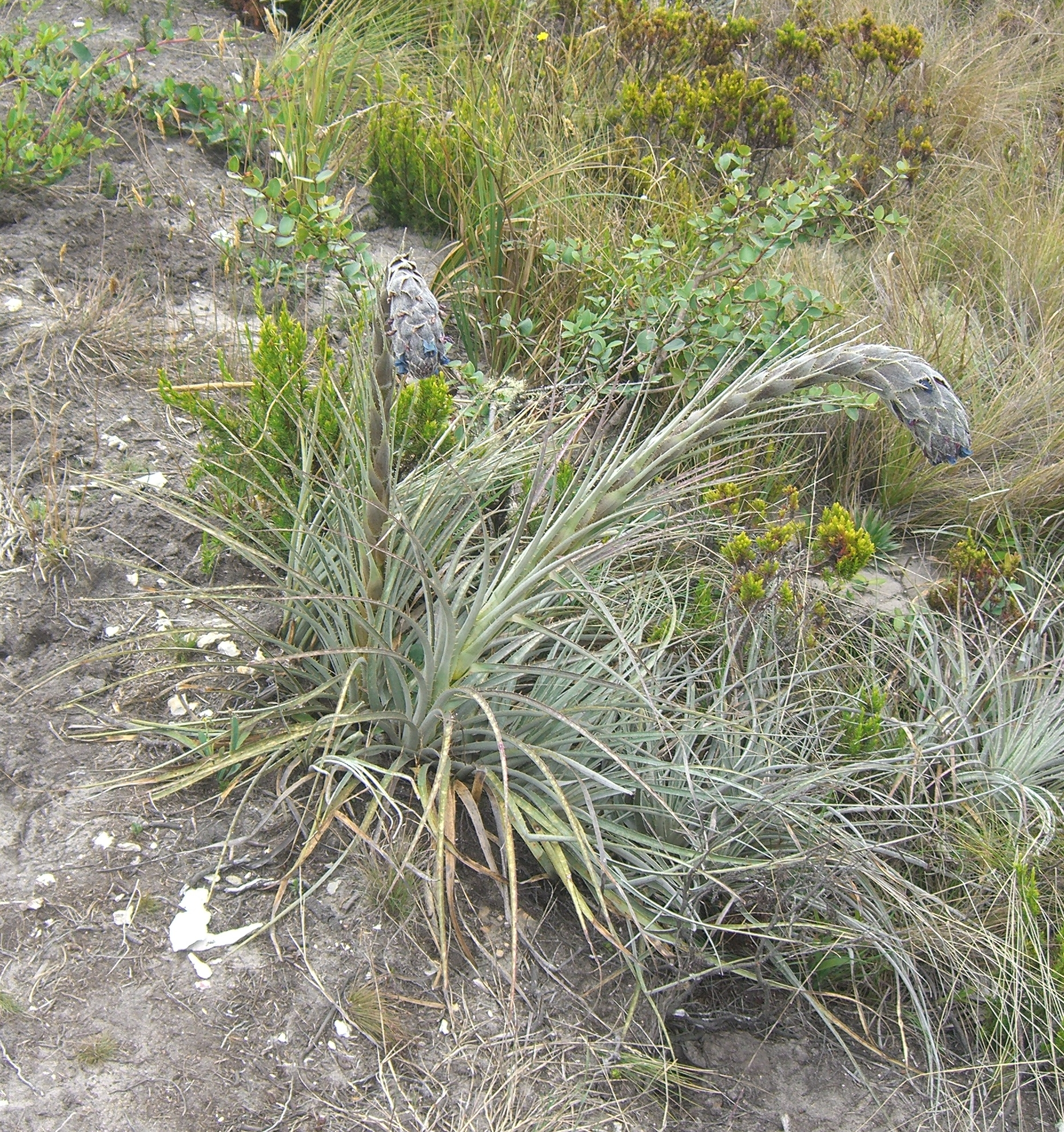 Please report references to .